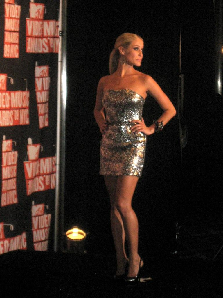 Kristin Cavallari at the 2009 MTV Video Music Awards.rocking